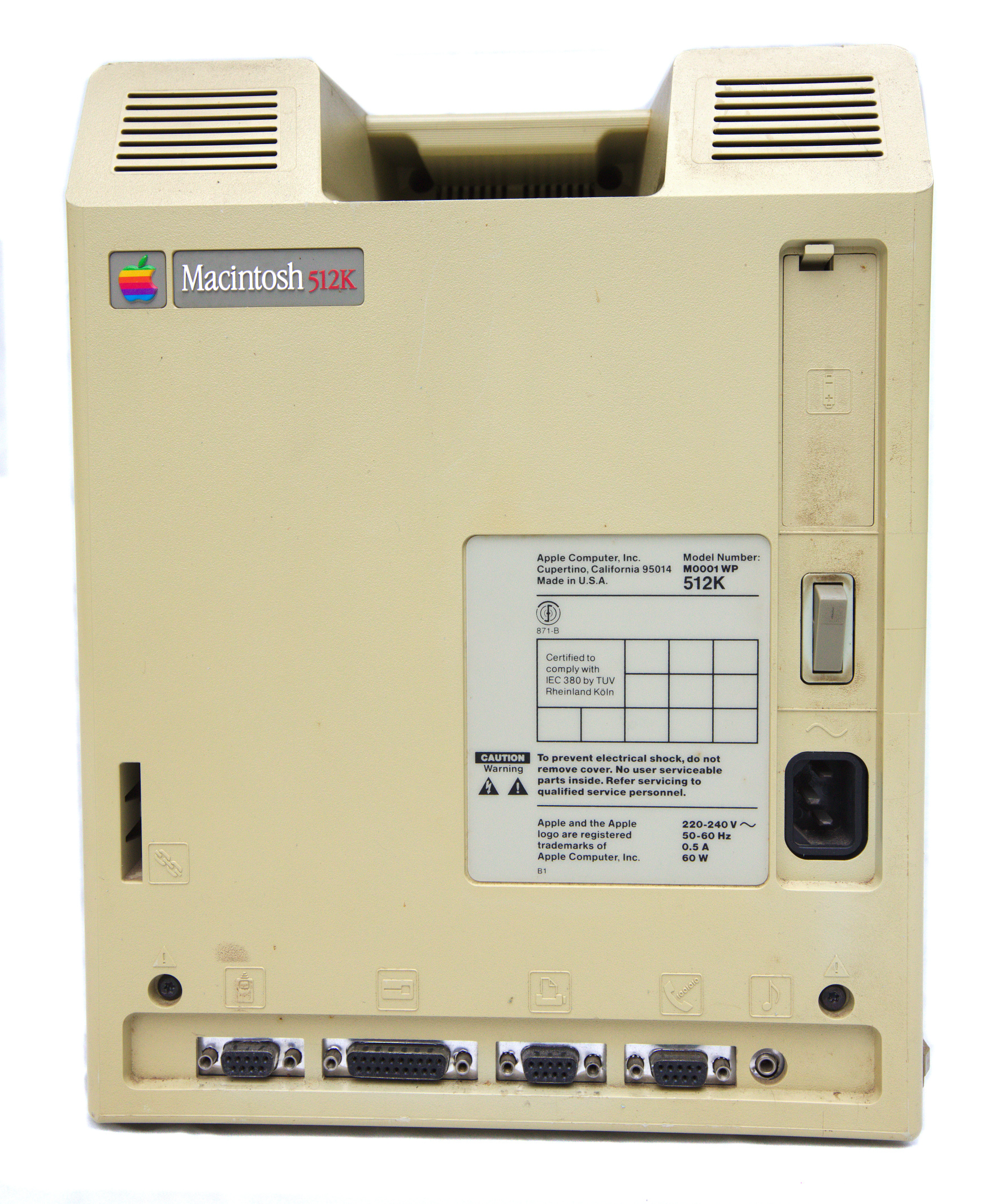 Rear of an Apple Macintosh 512K computer.